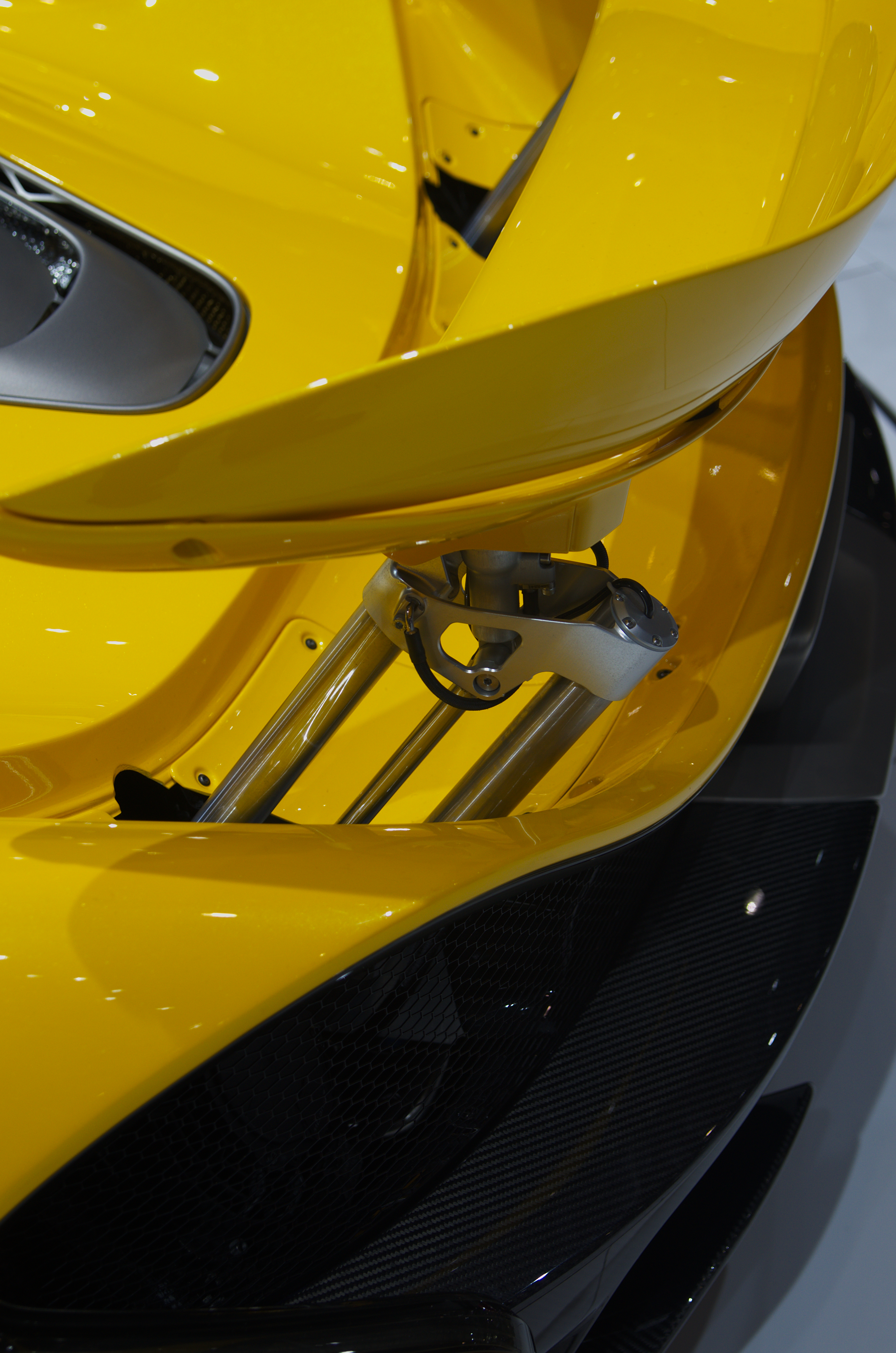 Geneva MotorShow 2013 - McLaren P1 rear spoiler